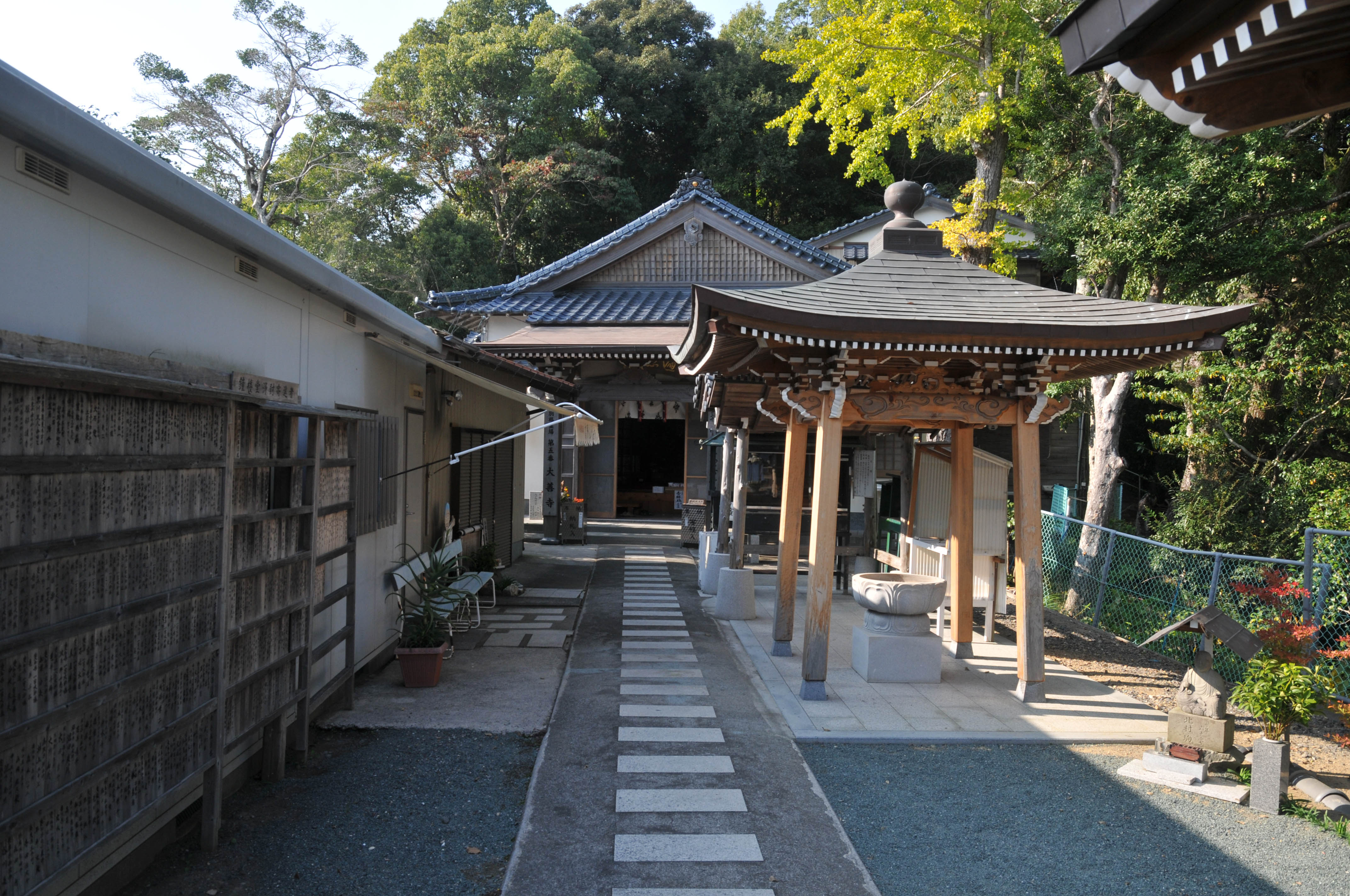 Main temple, Daizen-ji